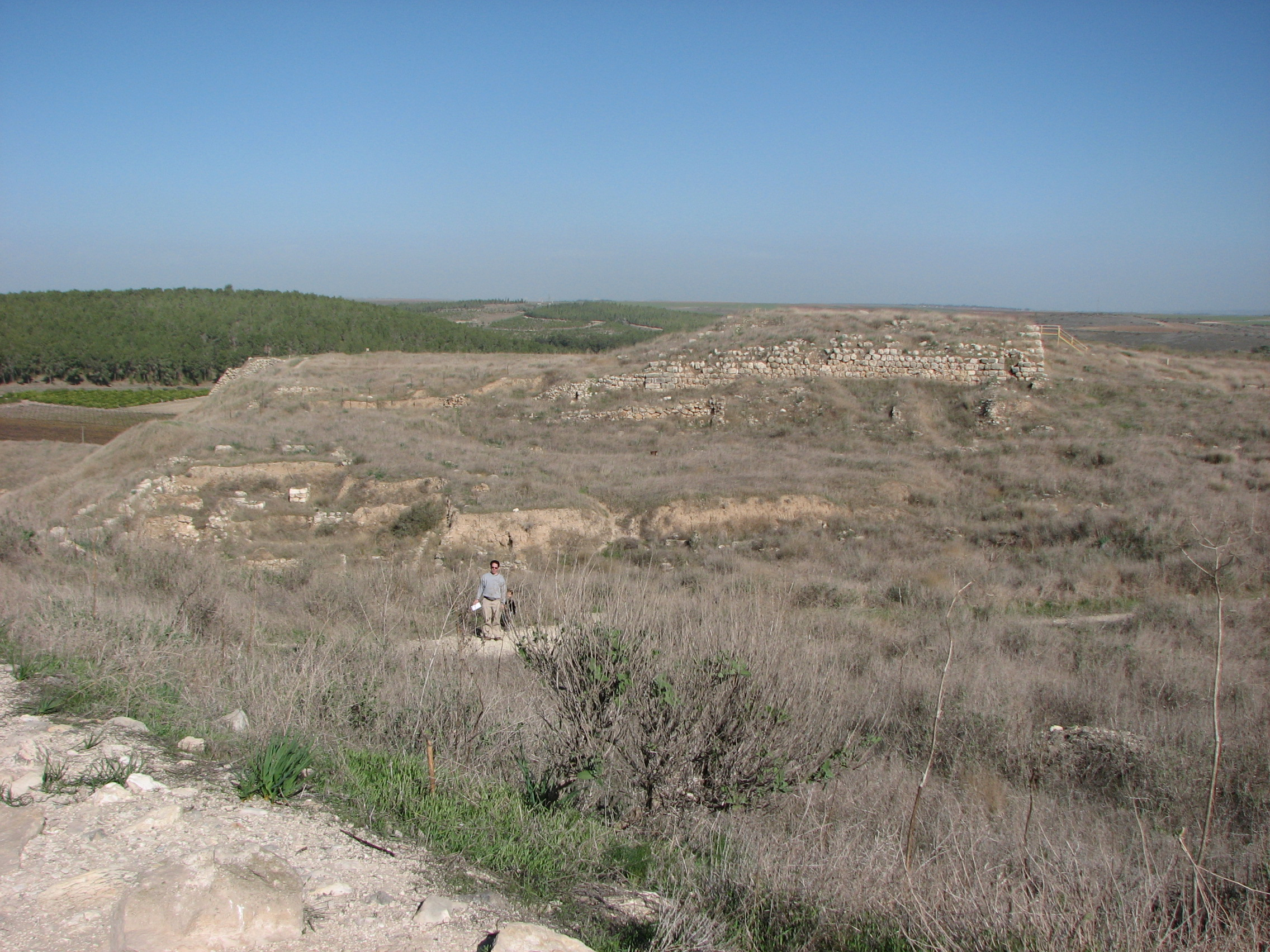 Plateau of the Tell ed-Duwe (Lachish)